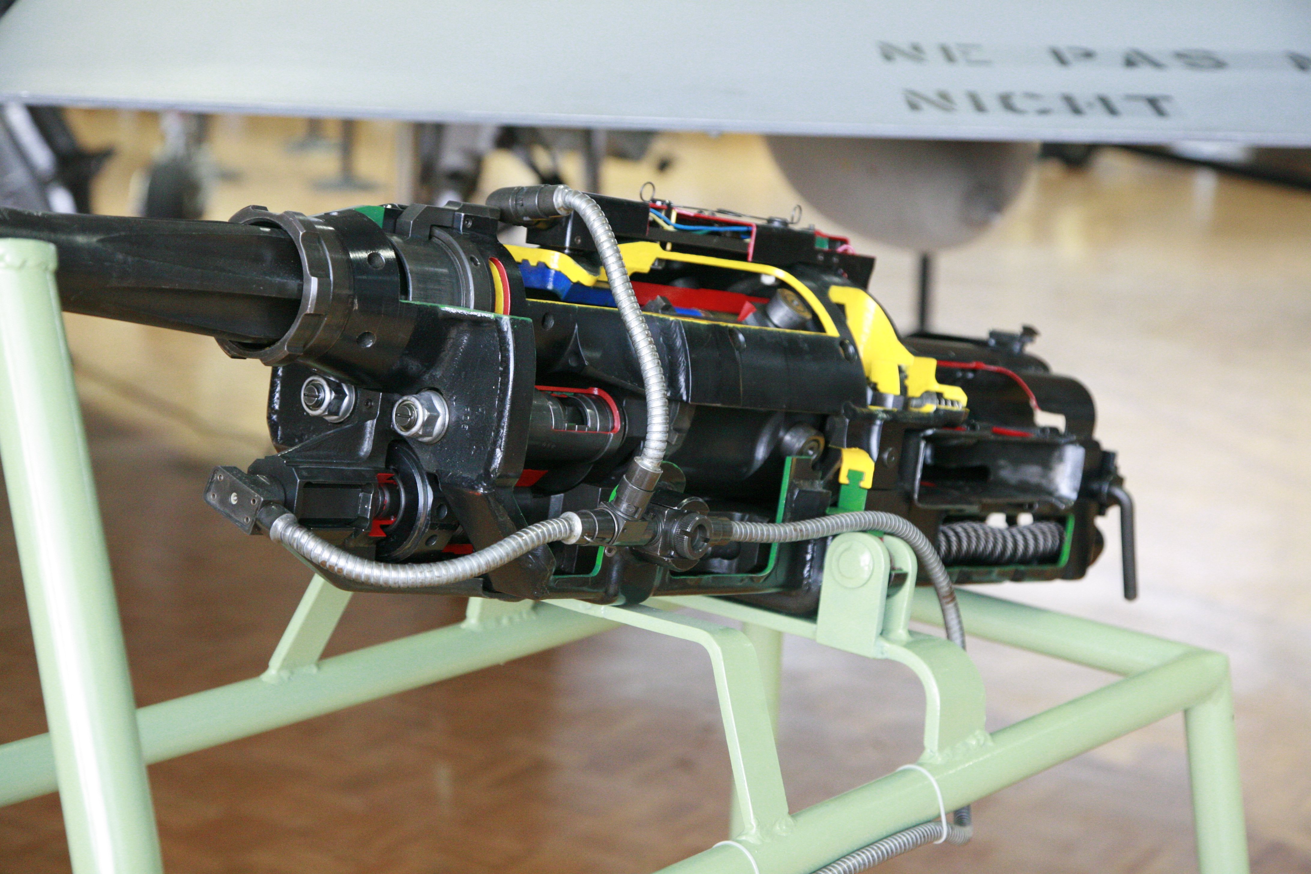 DEFA cannon